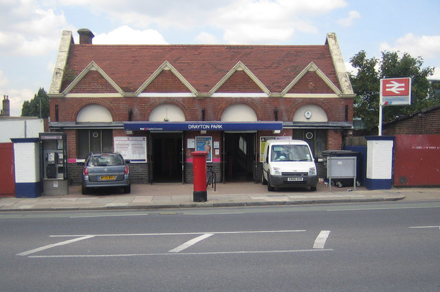 Drayton Park railway station Drayton Park railway station is on the Network Rail Northern City Line which carries First Capital Connect services between Moorgate and Welwyn Garden City or Hertford via Finsbury Park. It has had a chequered ownership, being opened by the Great Northern & City Railway in 1904, becoming part of the Metropolitan Railway in 1913, being transferred to the Northern Line in 1933, and becoming part of the British Rail network in 1975. For comparison there is a photo of the station at the end of its Metropolitan Railway days in 1933 in the London Transport Museum photographic archive here